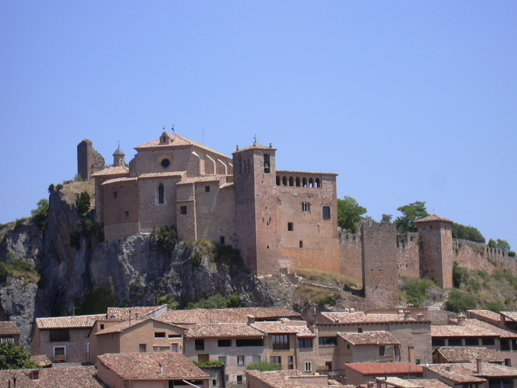 Colegiate church in alquézar